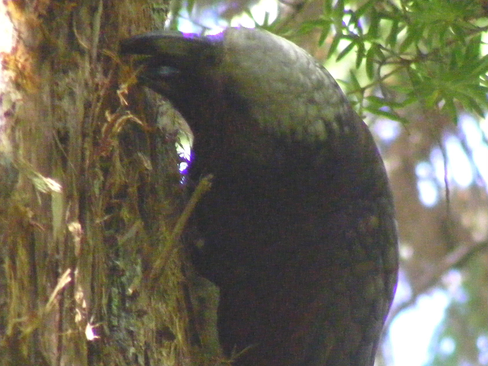 A kaka ripping bark off a tree to expose insects underneath.